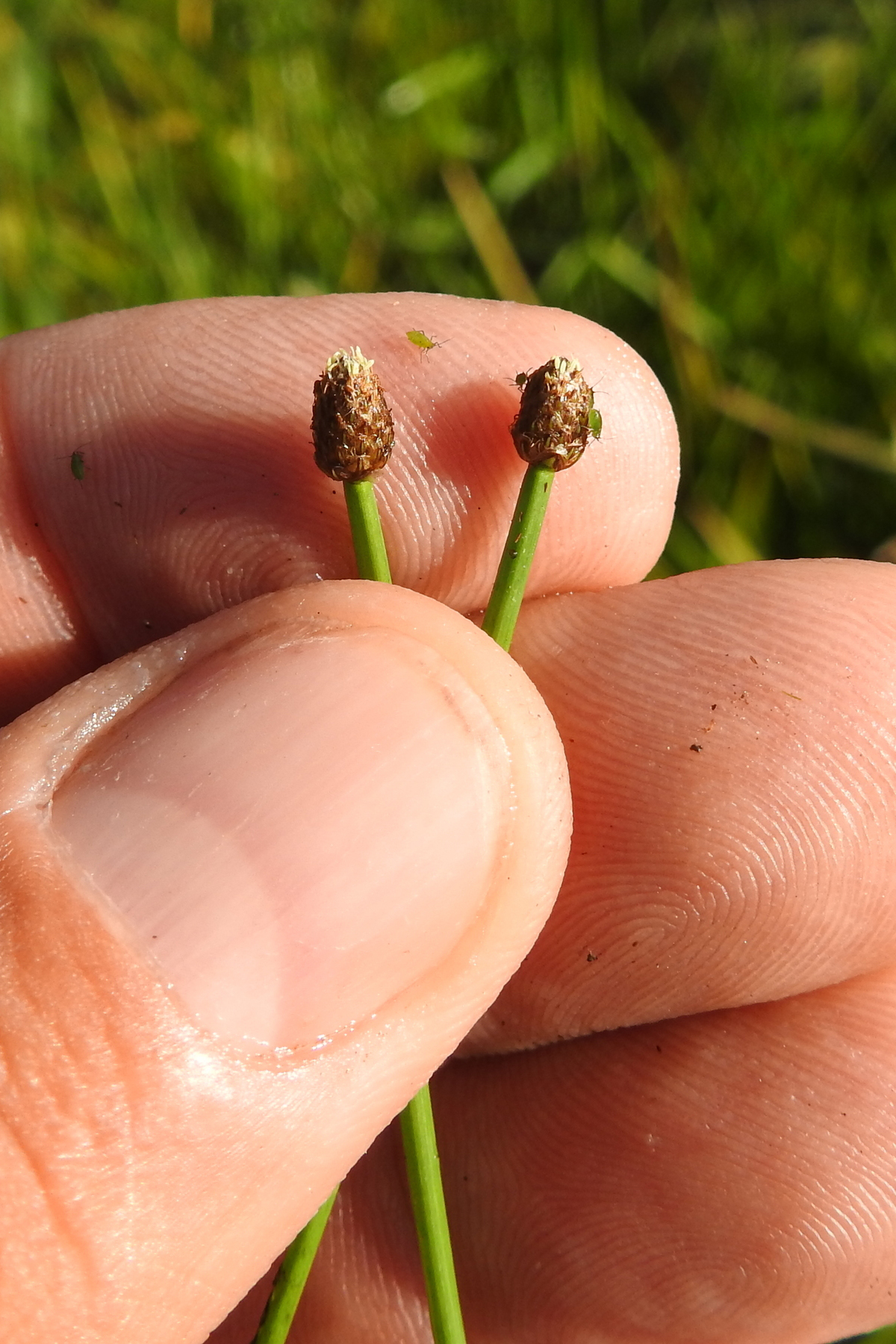 Blunt spikerush (Eleocharis obtusa) (Willd.) Schult.